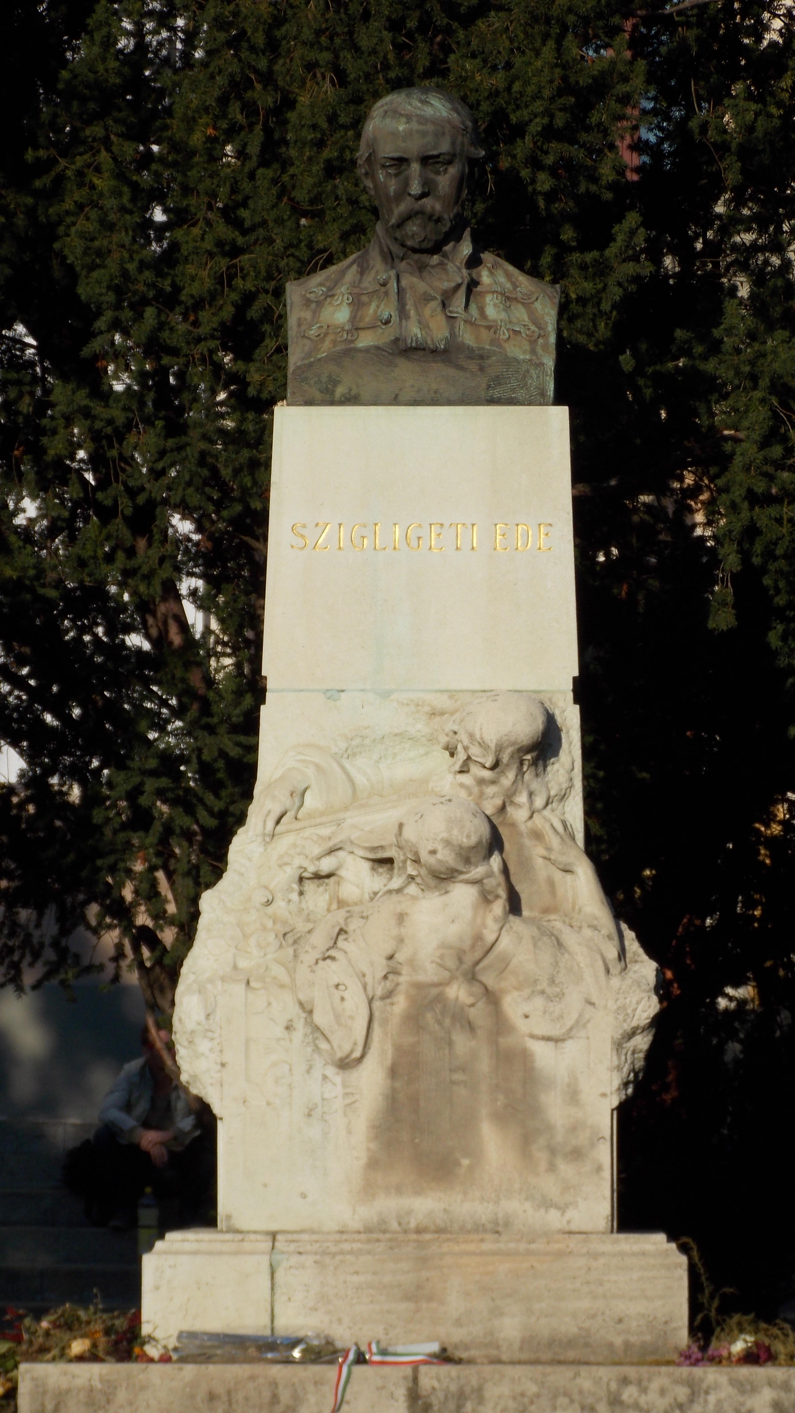 Szigligeti Ede bust - OradeaRomână: Bustul lui Szigligeti Ede - Oradea